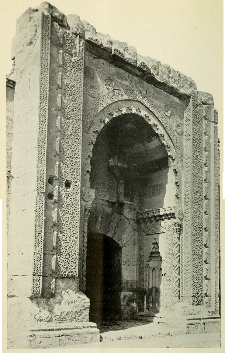 Gate of the Sırçalı Medrese in Konya. A Seljuk Madrasa built in 1243.